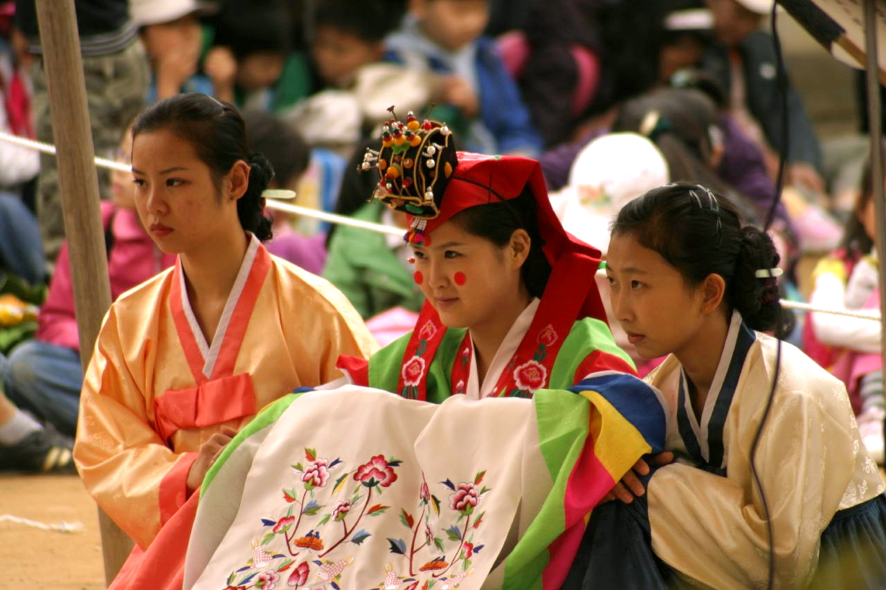 Traditional wedding ceremony